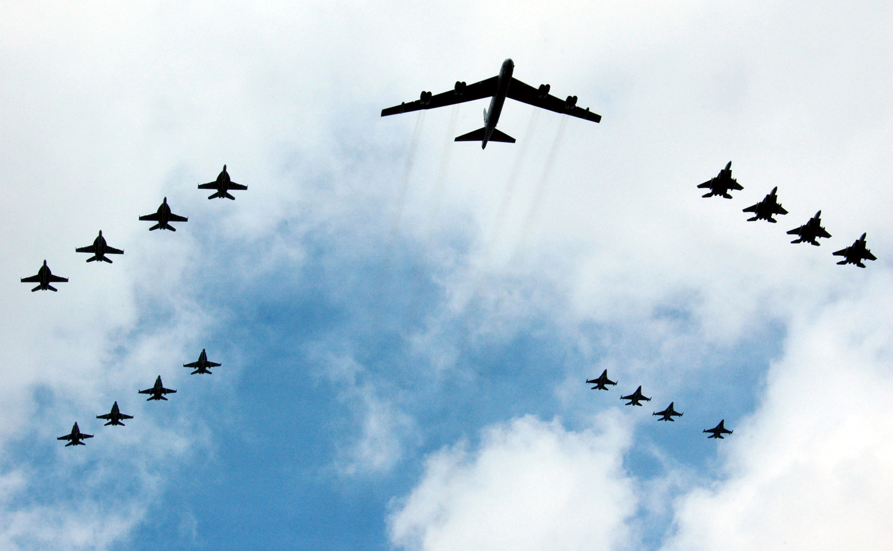 A U.S. Air Force B-52 and 16 other Air Force and Navy aircraft fly over USS Kitty Hawk on Aug. 14, 2007, during Valiant Shield 2007, the largest joint exercise in the Pacific this year. Held in the Guam operating area, the exercise includes 30 ships, more than 280 aircraft and more than 20,000 servicemembers from the Navy, Air force, Marine Corps, and Coast Guard.